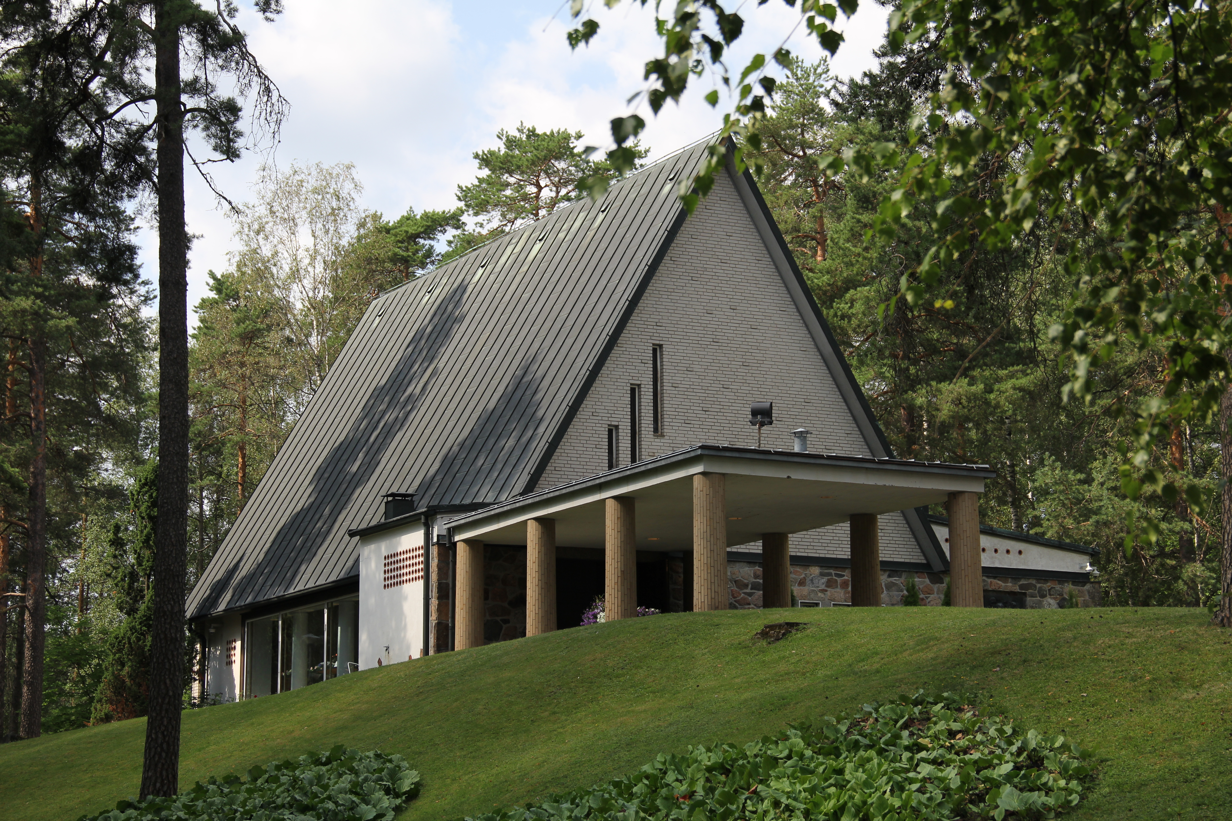 Ristikangas Chapel in Ristikangas Cemetery, Lappeenranta, Finland. The chapel was designed by architect Erik Bryggman and completed in 1957. - Seen from southwest.